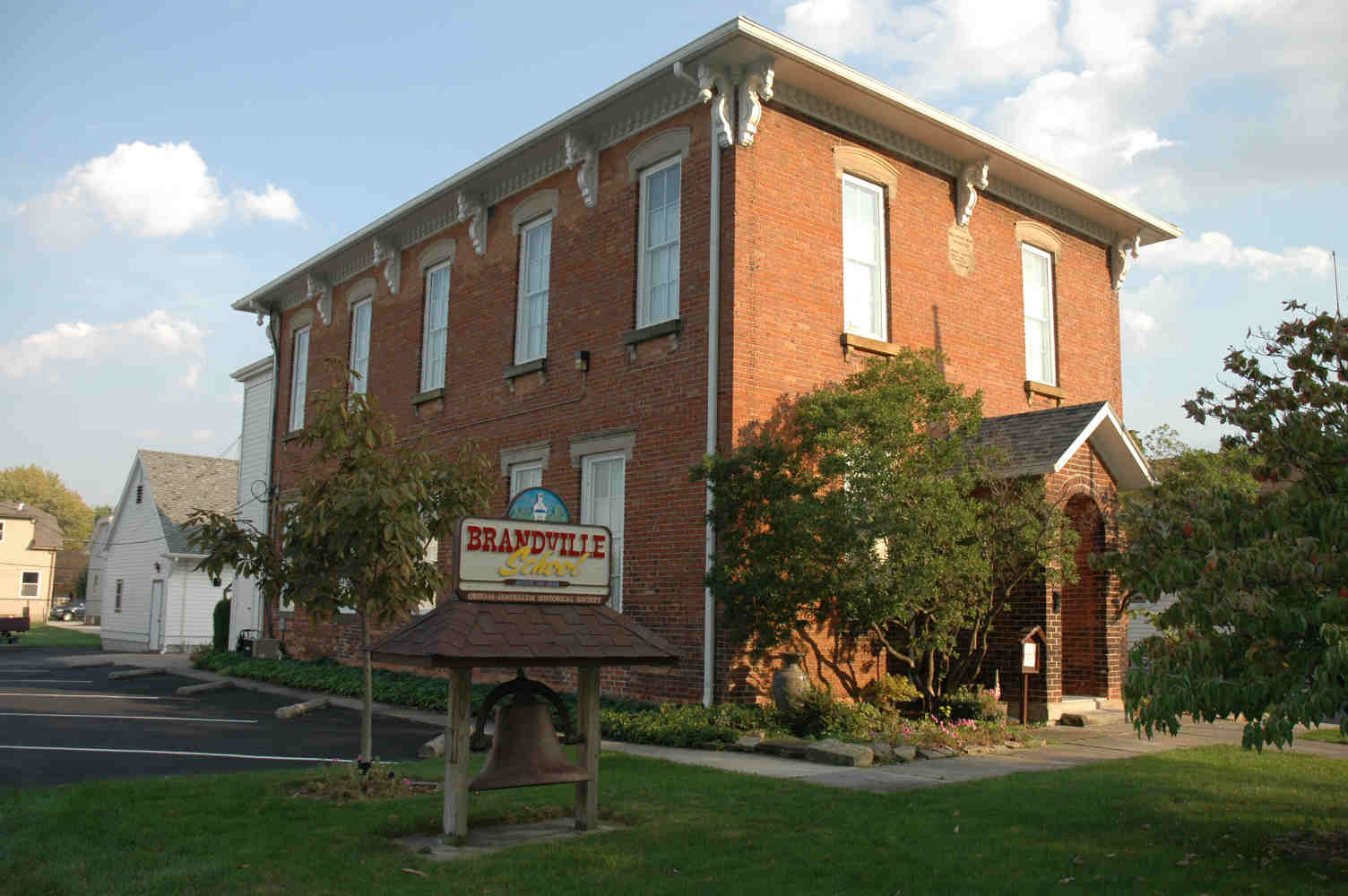 Brandville School